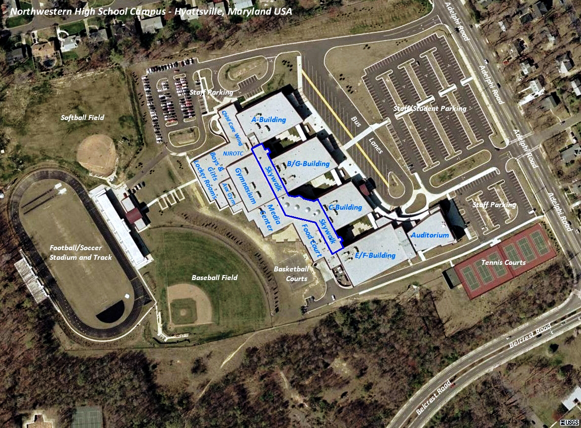 An aerial image of the Northwestern High School campus — a product of the USGS.